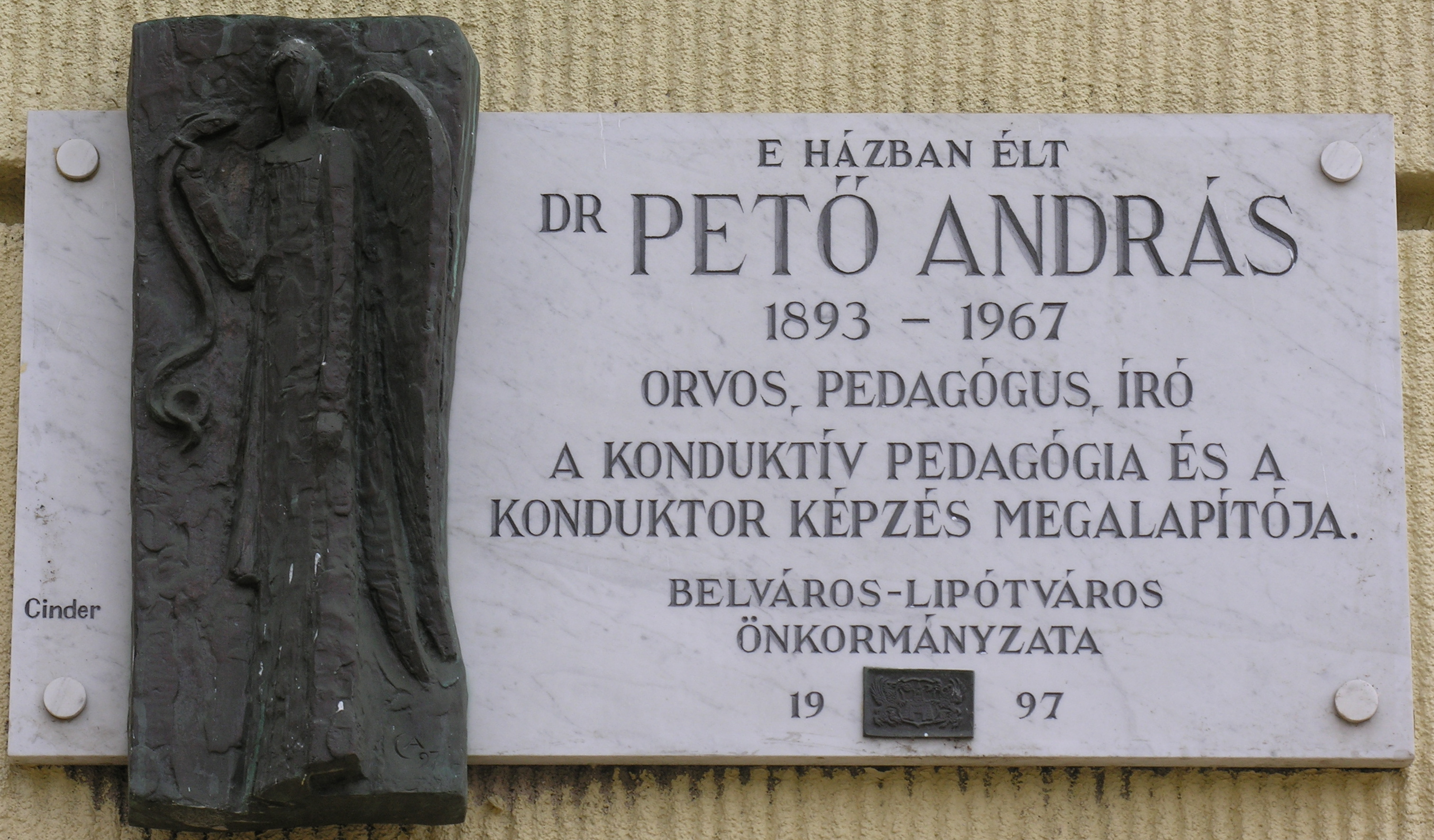 Commemorative plaque of András Pető in Budapest District V, Stollár Béla Street No 4 (Balassi Béla Street side)